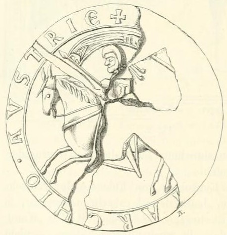 Ernest, Margrave of Austria